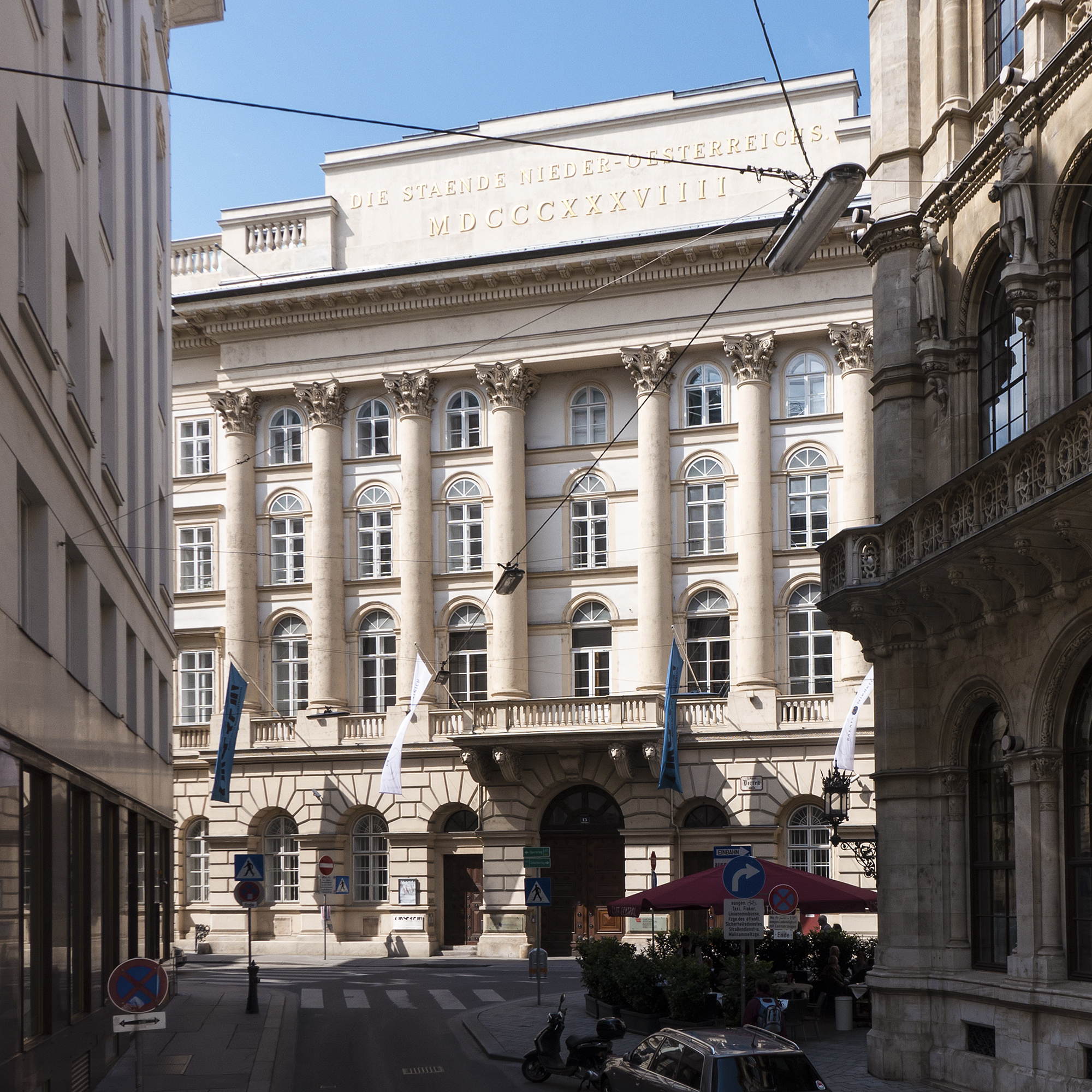 Palais Niederösterreich at Herrengasse 13 in Vienna 1